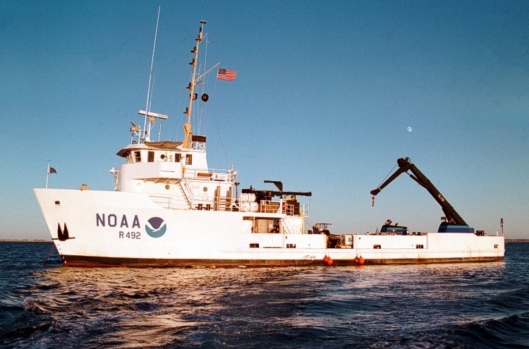 NOAA Ship Ferrel